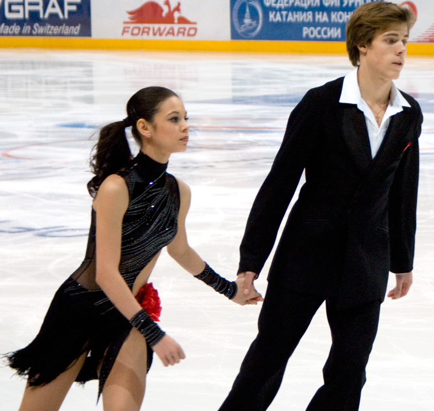 2010 Cup of Russia, short program.